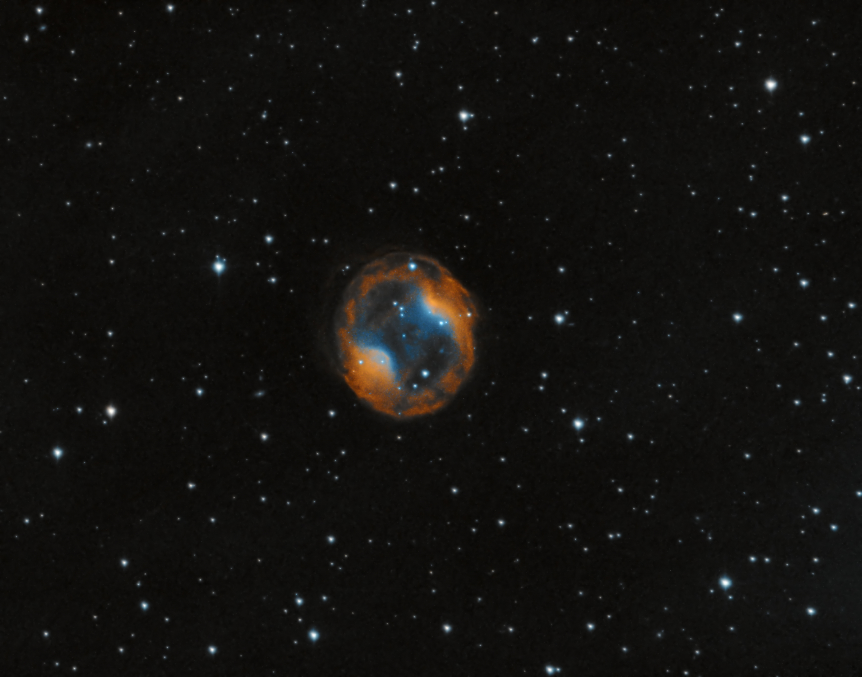 The headphones nebula in HOO